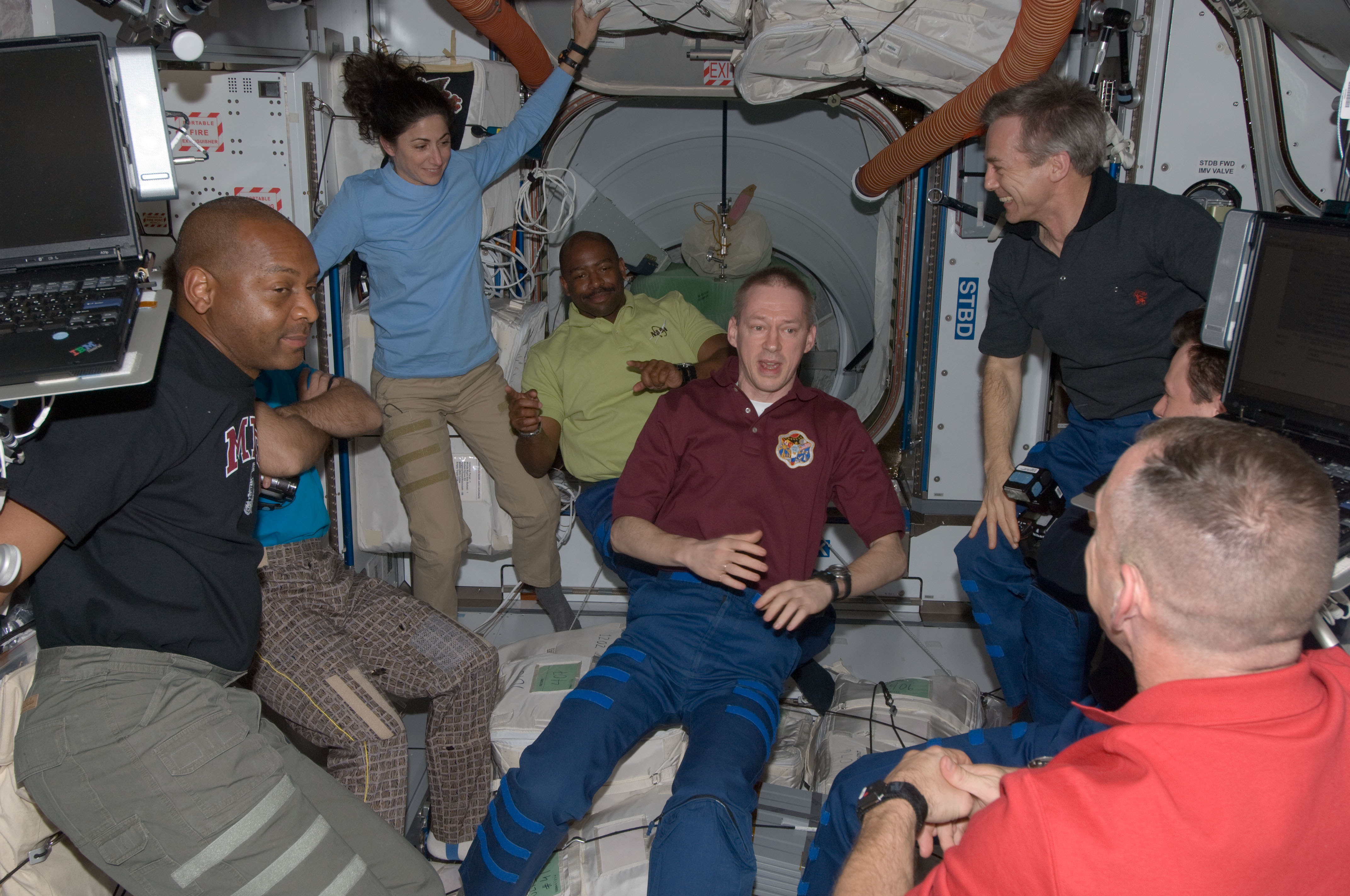 STS-129 and Expedition 21 crew members are pictured shortly after Space Shuttle Atlantis and the International Space Station docked in space and the hatches were opened on Nov. 18, 2009. Pictured are European Space Agency astronaut Frank De Winne (center), Expedition 21 commander; along with NASA astronauts Robert L. Satcher Jr. (left), STS-129 mission specialist; Nicole Stott, Expedition 21 flight engineer; Leland Melvin (background) and Randy Bresnik (right foreground), both STS-129 mission specialists. Also pictured are Russian cosmonauts Maxim Suraev (left, partially obscured) and Roman Romanenko (right, mostly obscured); along with Canadian Space Agency astronaut Robert Thirsk (right background), all Expedition 21 flight engineers.